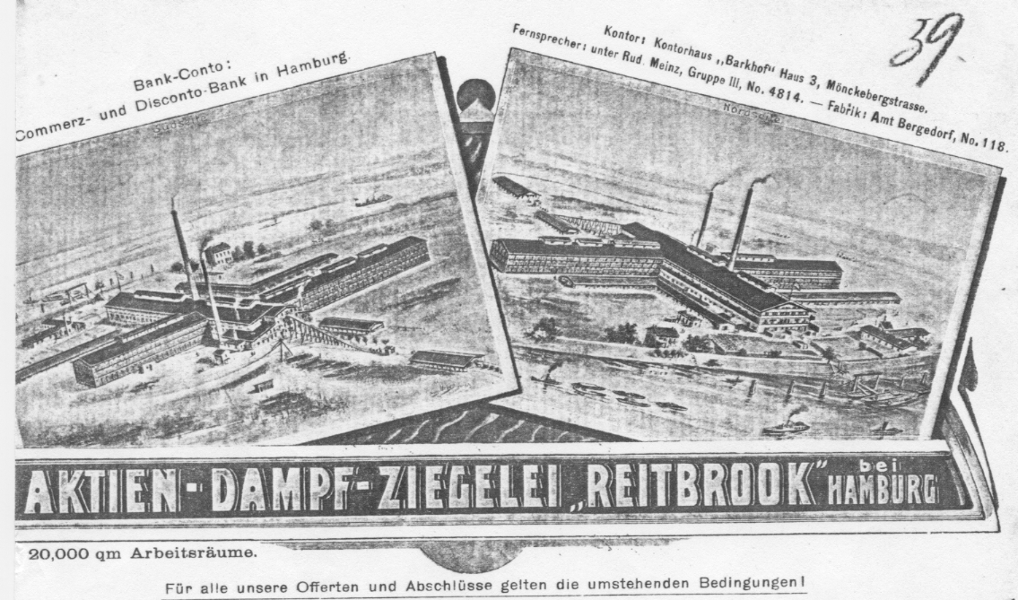 Heading of the company of brickworks "Aktien-Dampf-Ziegelei Reitbrook bei Hamburg"